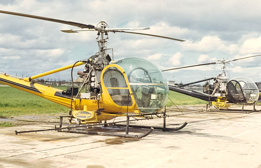 Clevenger's at Salinas in March 1967.